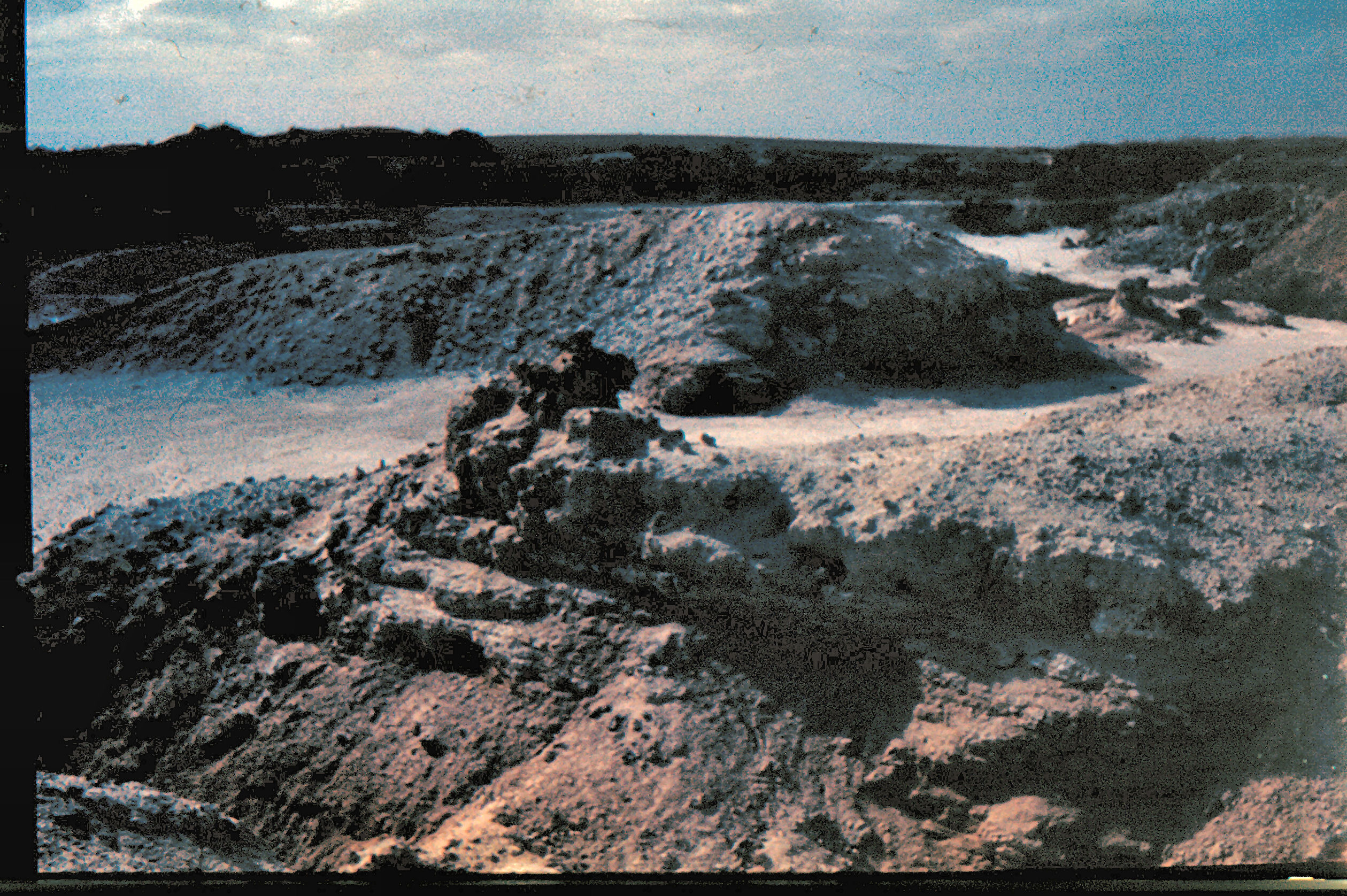 Lisan_formation